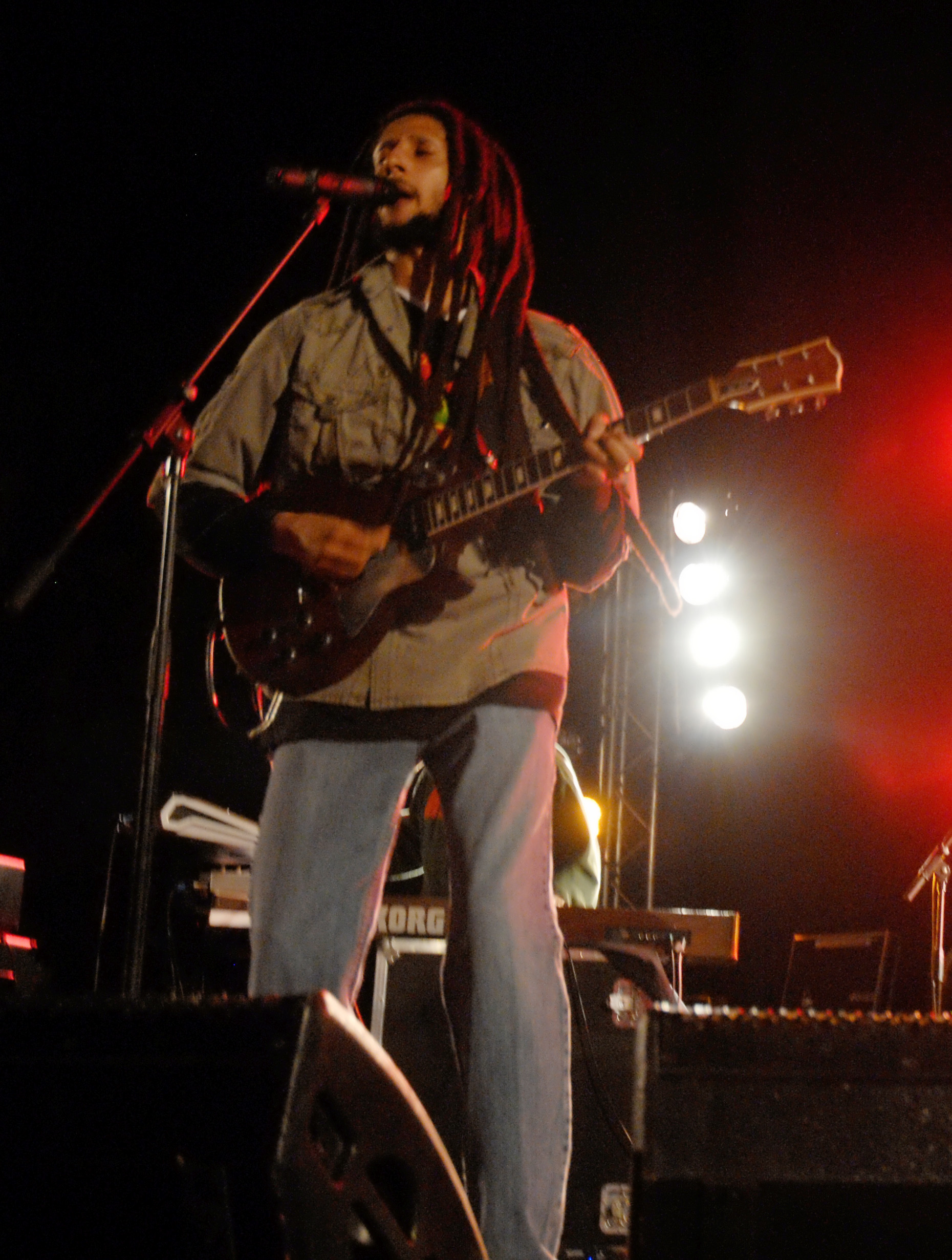 Julian Ricardo Marley, British reggae musician, on stage in Cascais, Portugal.